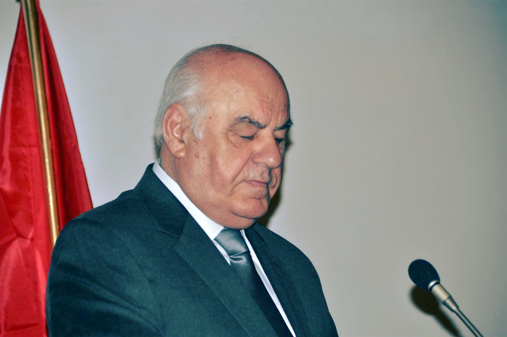 Alfred Moisiu